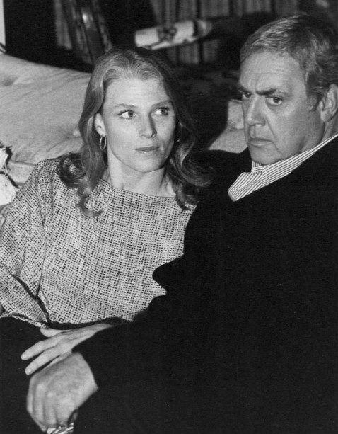 Publicity photo of Mariette Hartley and Raymond Burr from the premiere of Kingston: Confidential, 1977.